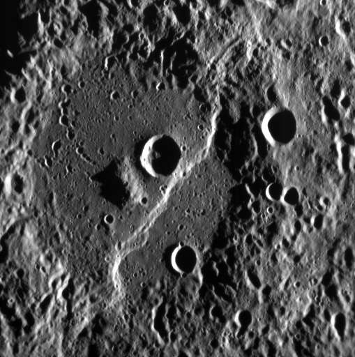 Oblique view of Balagtas crater on Mercury. MESSENGER Narrow Angle Camera image. North is at top. Height is approximately 116 km at left. Emission Angle: 29.8 Incidence Angle: 82.3 Latitude: -22.4 Longitude: 346.9 Phase Angle: 112.1